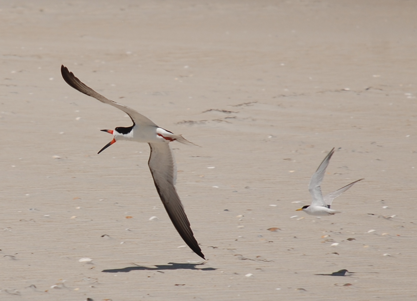 Birds of Core Banks, North Carolina: Black Skimmer (Rynchops niger) chased by Least Tern (Sternula antillarum) at nesting site near Drum Inlet